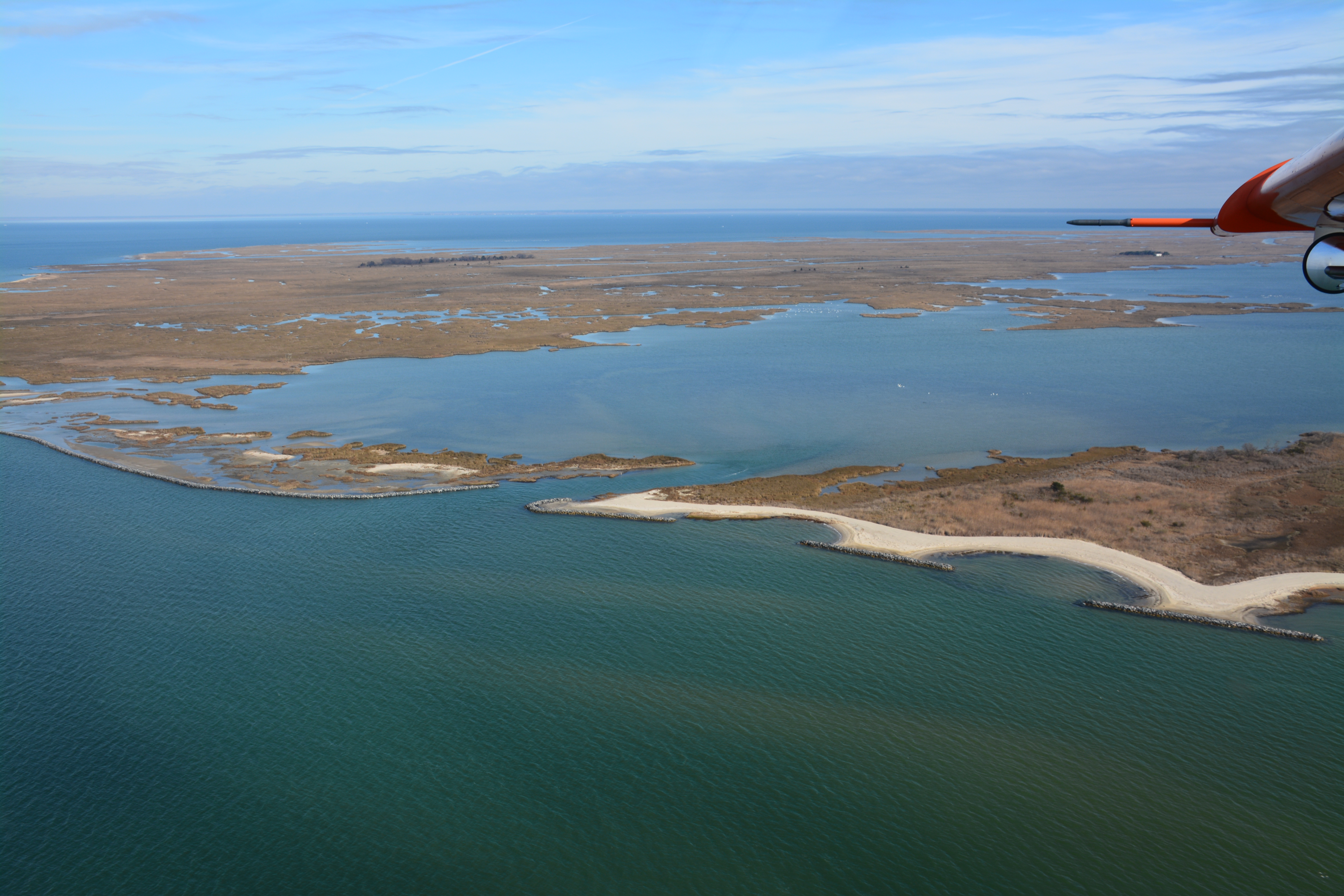 This project constructs 20,950 feet of "living shoreline" to stabilize a highly vulnerable shoreline at the Glenn Martin National Wildlife Refuge in Maryland and directly protects over 1,200 acres of quality tidal high marsh, submerged aquatic vegetation and clam beds. More project details on Hurricane Sandy website